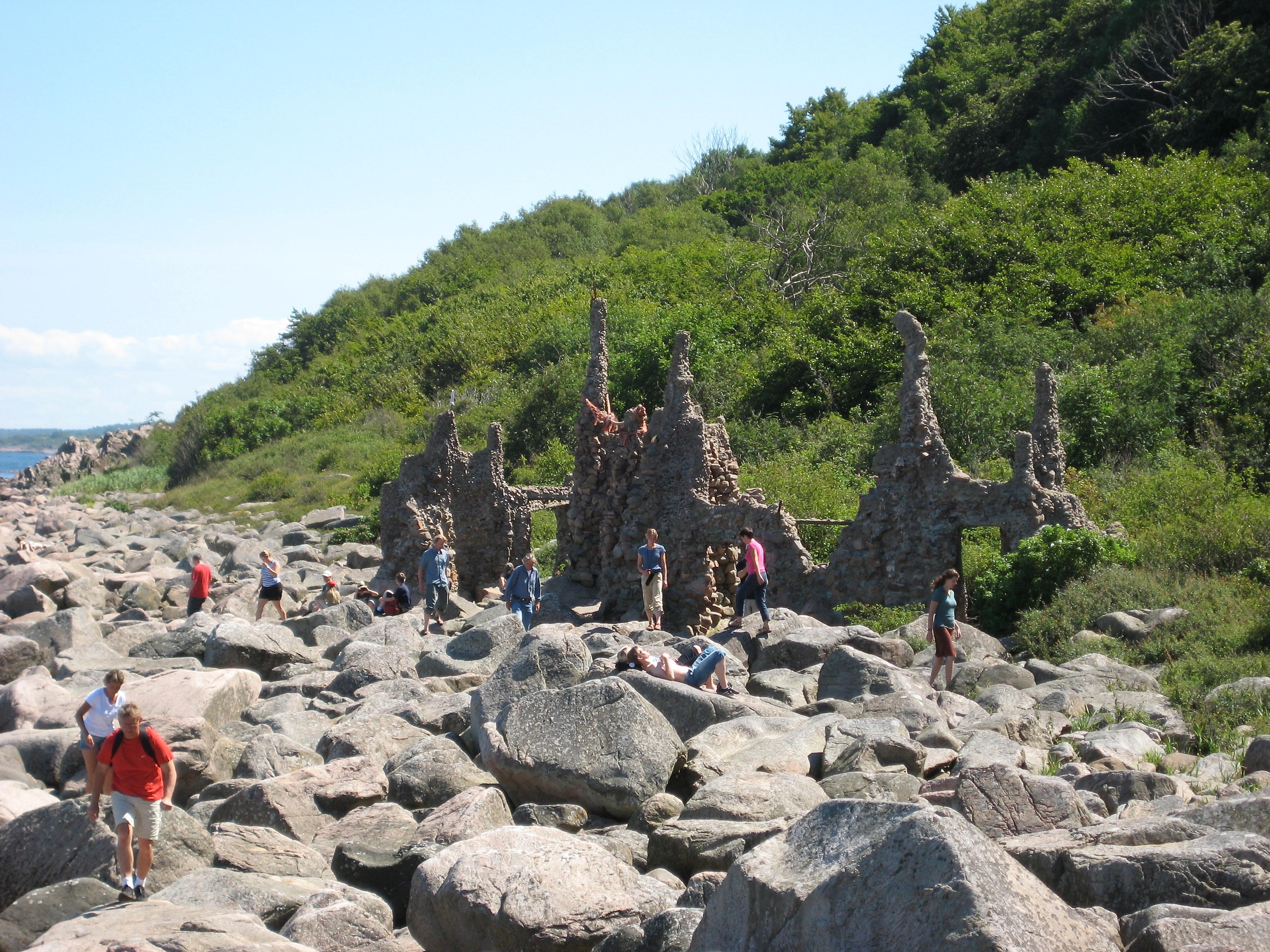 the stone-and-concrete sculpture “Arx” by Lars Vilks, located in the micronation Ladonia proclaimed independent from Sweden by Vilks in 1996.Kullaberg